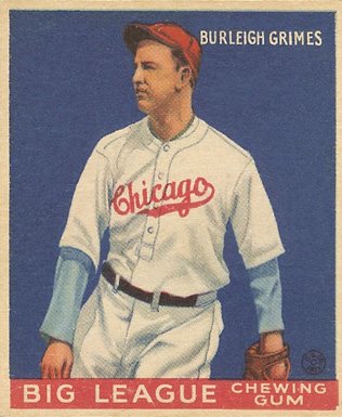 1933 Goudey baseball card of Burleigh Grimes of the Chicago Cubs card number 64. PD-not-renewed.